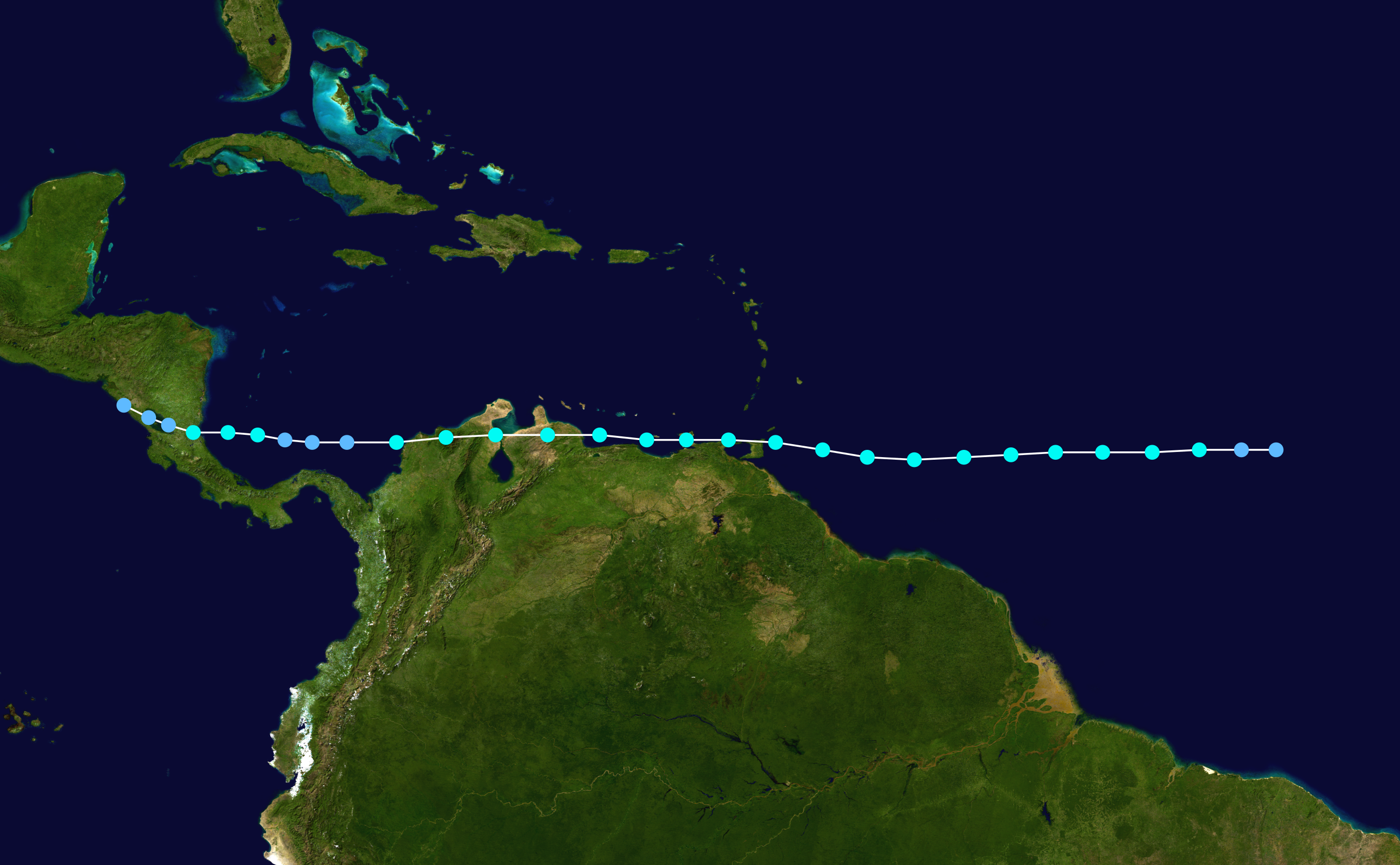 Track map of Tropical Storm Bret of the 1993 Atlantic hurricane season. The points show the location of the storm at 6-hour intervals. The colour represents the storm's maximum sustained wind speeds as classified in the Saffir–Simpson scale (see below), and the shape of the data points represent the nature of the storm, according to the legend below. Saffir–Simpson scale Tropical depression≤38 mph≤62 km/h Category 3111–129 mph178–208 km/h Tropical storm39–73 mph63–118 km/h Category 4130–156 mph209–251 km/h Category 174–95 mph119–153 km/h Category 5≥157 mph≥252 km/h Category 296–110 mph154–177 km/h Unknown Storm type Tropical cyclone Subtropical cyclone Extratropical cyclone / Remnant low / Tropical disturbance / Monsoon depression